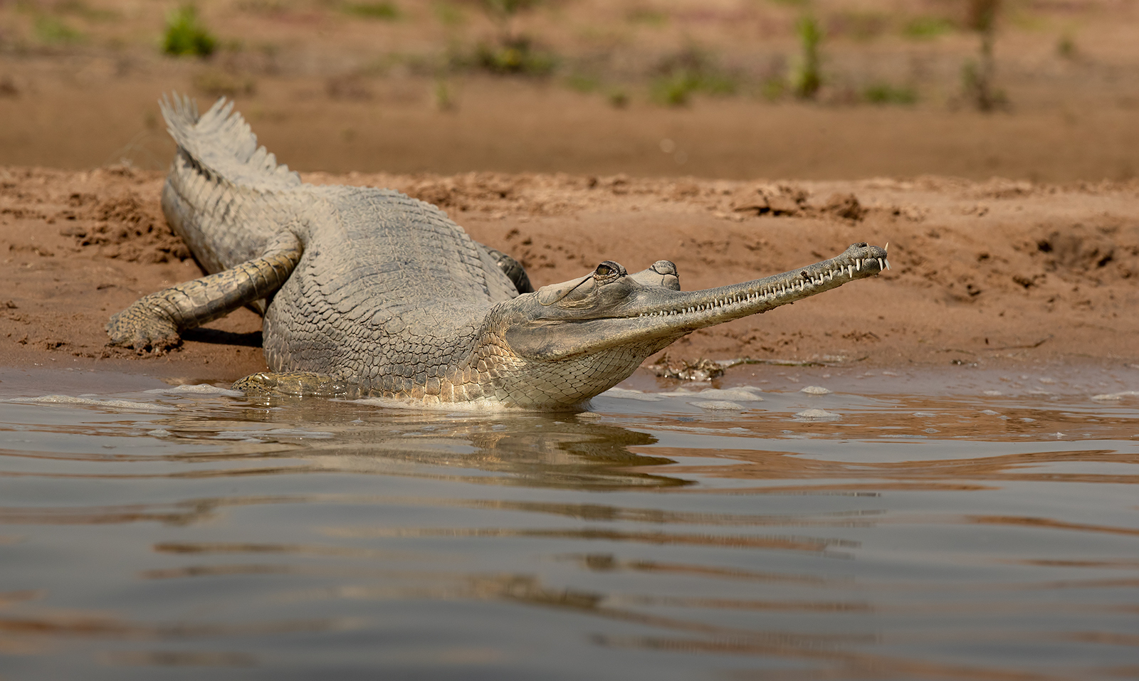 native to the northern part of the Indian subcontinent